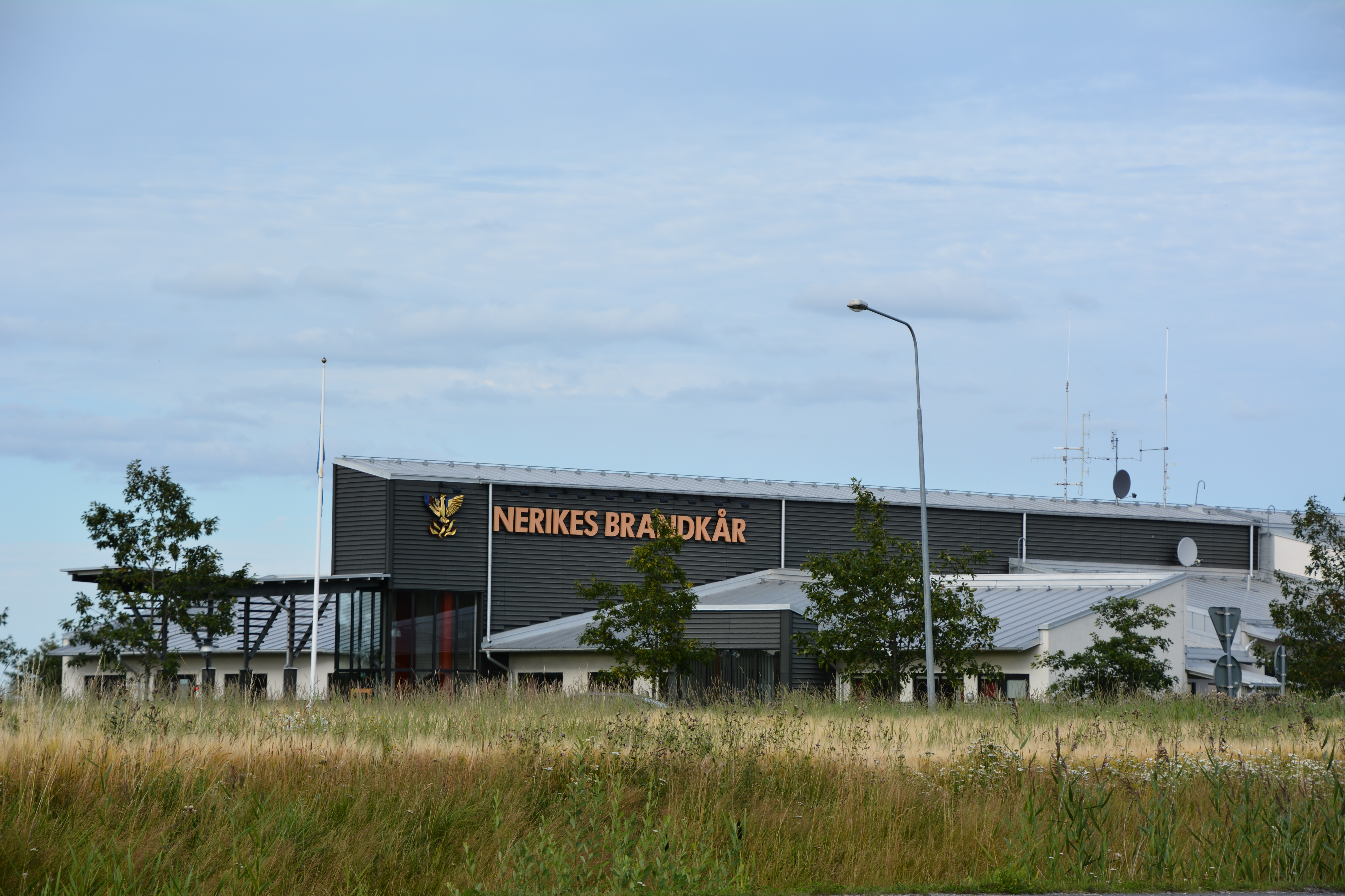 Nerikes Brandkårs station i Kumla